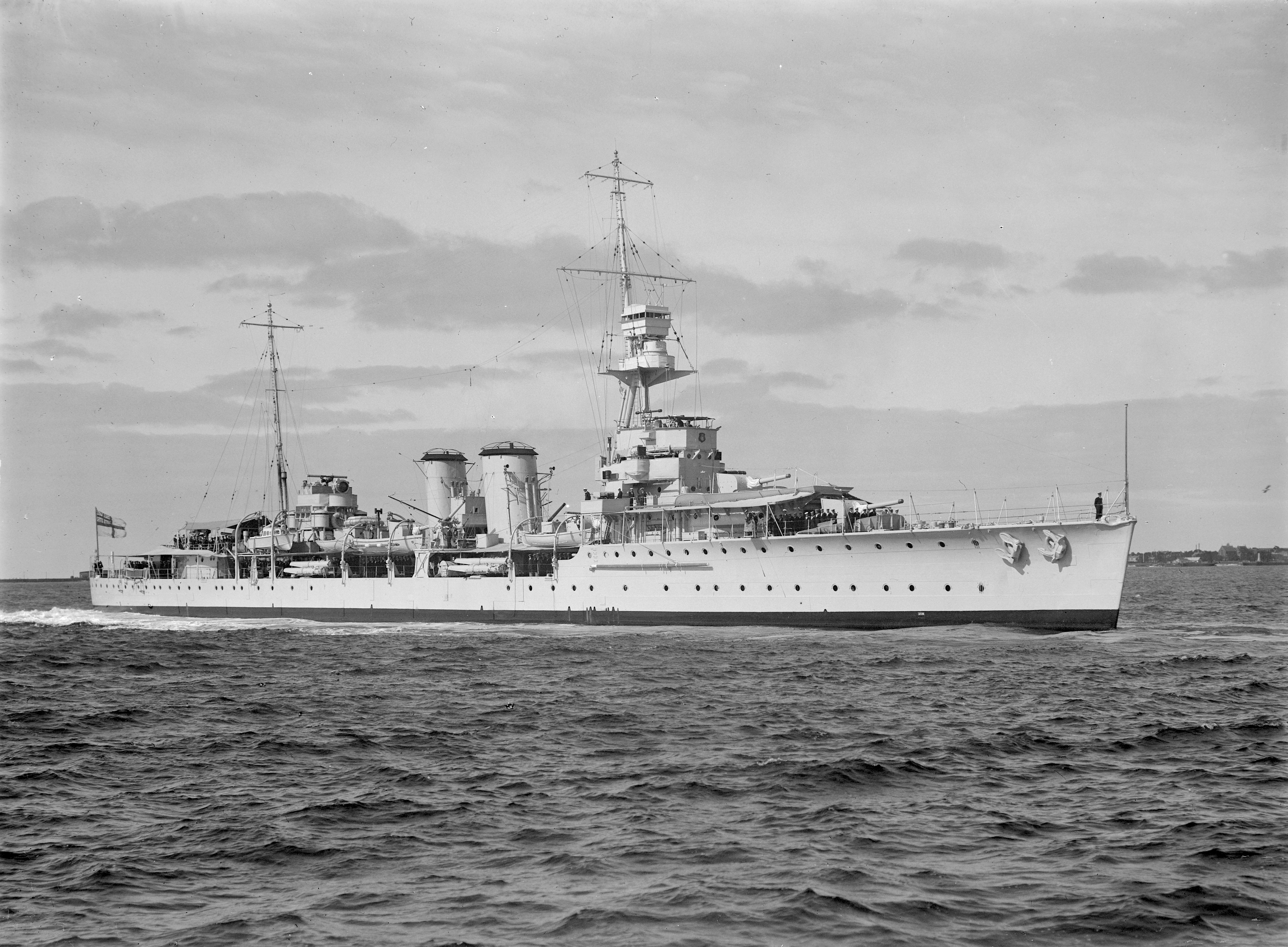 HMS Danae